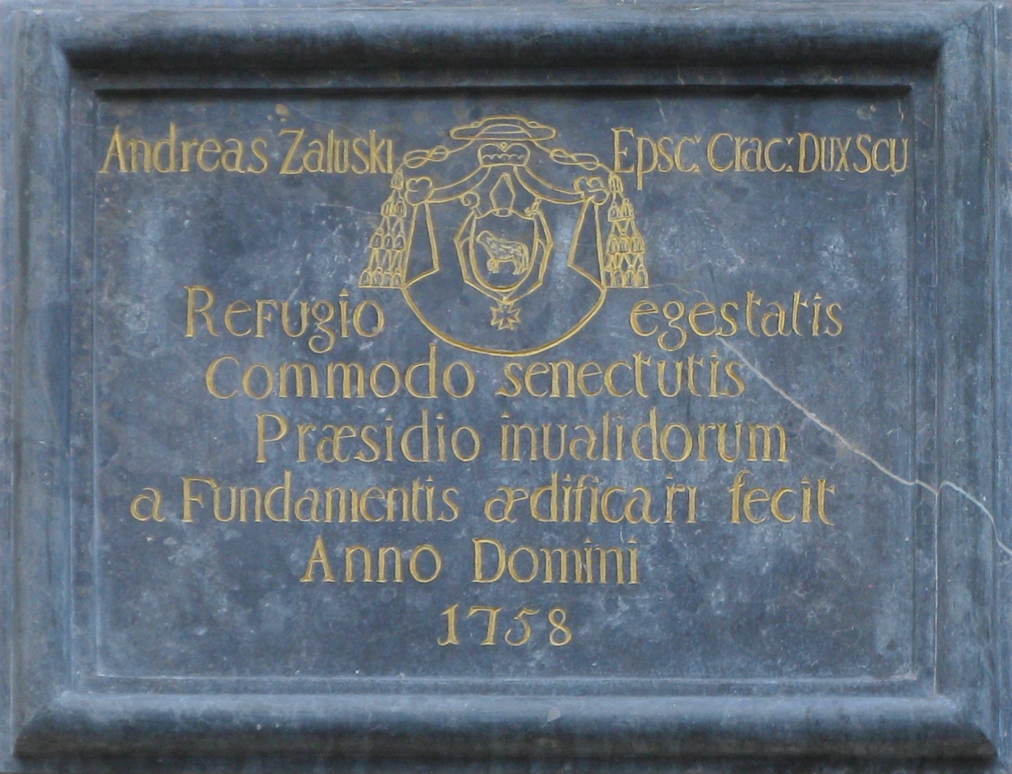 The plaque with Andrzej Stanisław Załuski Junosza coat of arms on the wall of building in Sławków, Kościelna 11 street, Poland.